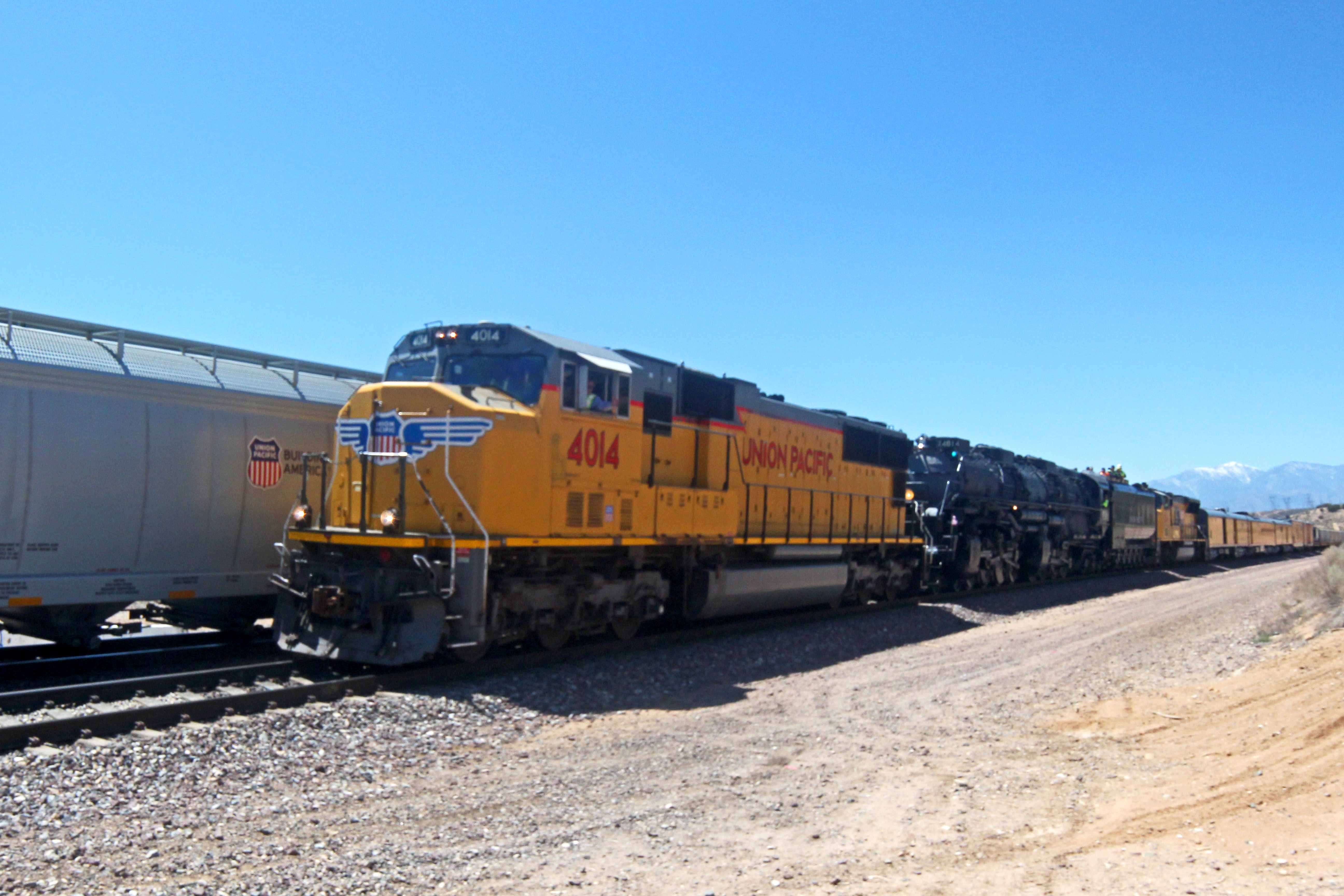 Cajon Pass and Hespria